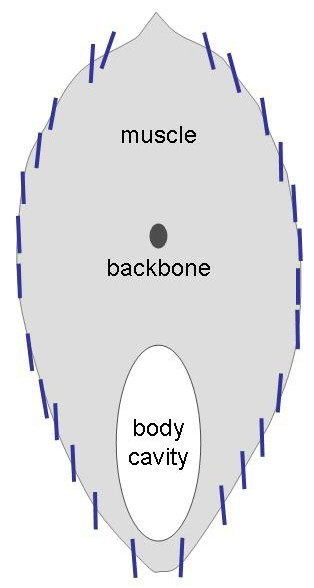 How the Herring is silvered: the reflectors are oriented nearly vertically to provide effective camouflage from the side.